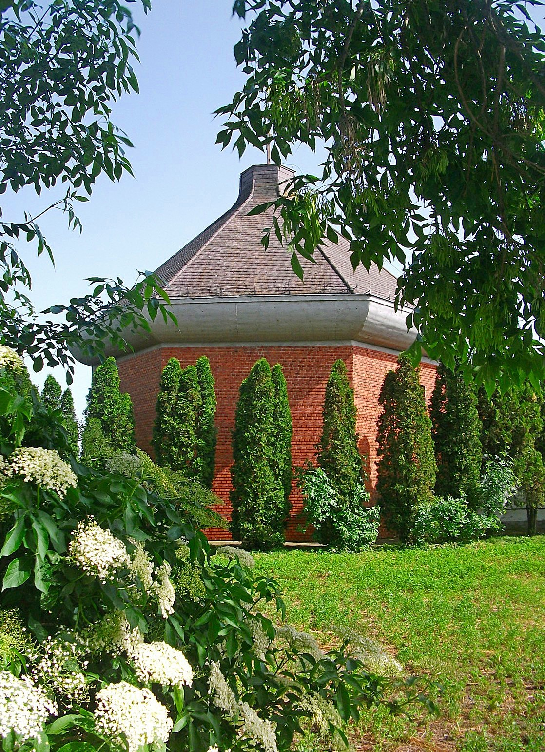 The Saint Emeric chapel.